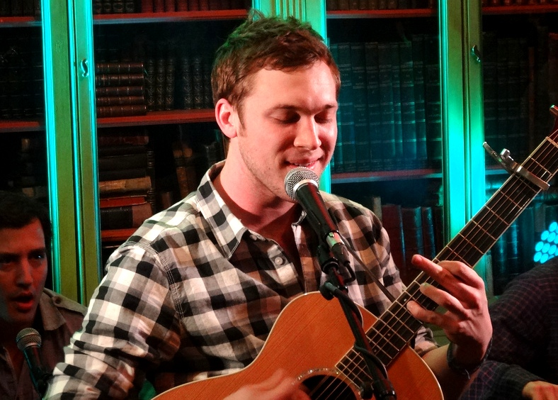 Phillip Phillips performing in Paris, France last March 4, 2013.